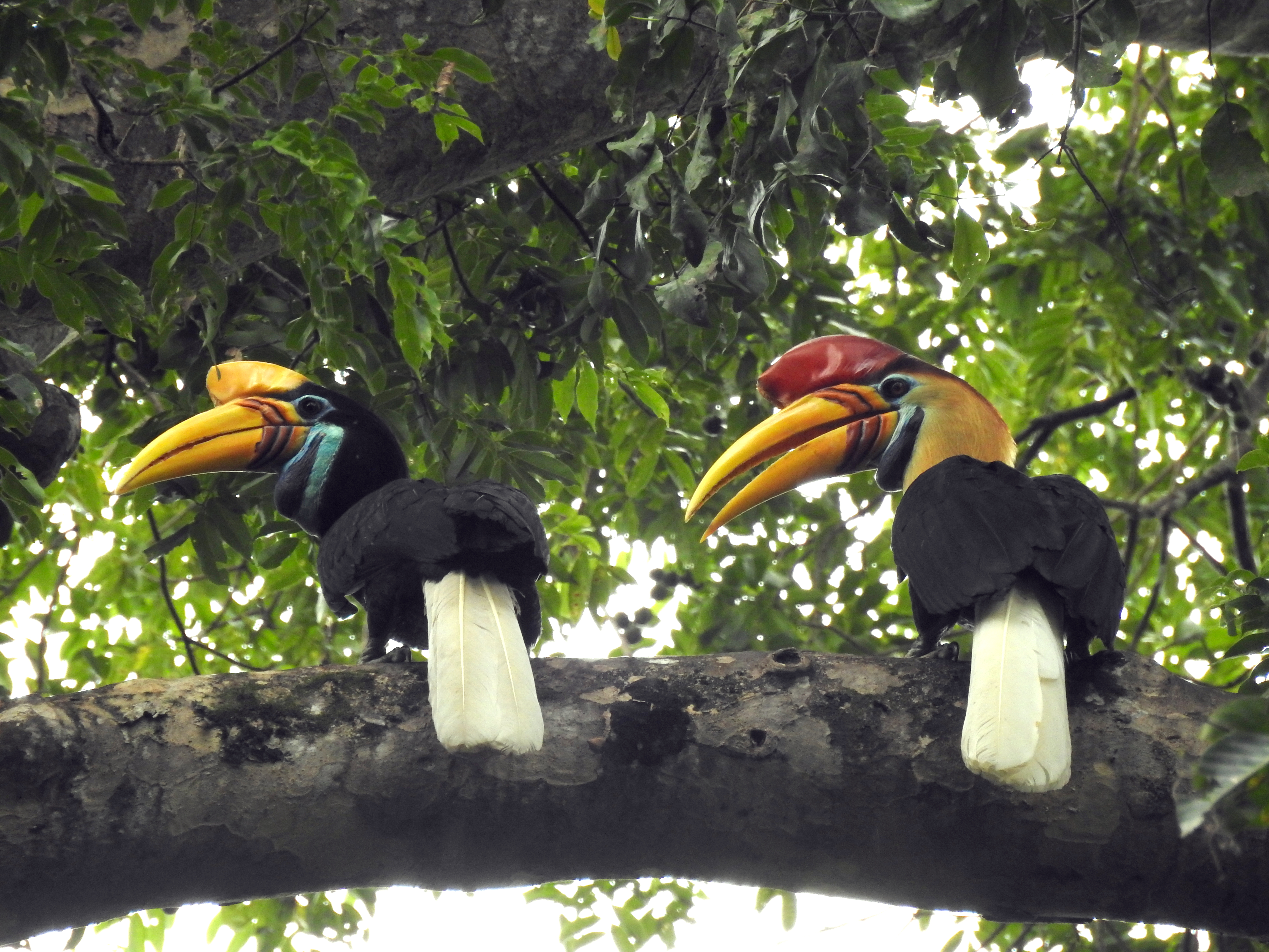 Female (left) and male (right) Knobbed Hornbill (Rhyticeros cassidix) in Tangkoko Nature Reserve, Sulawesi